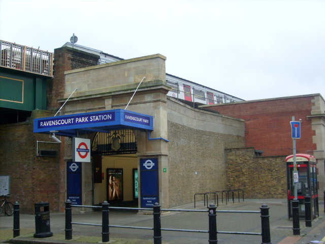 Ravenscourt Park Tube Station